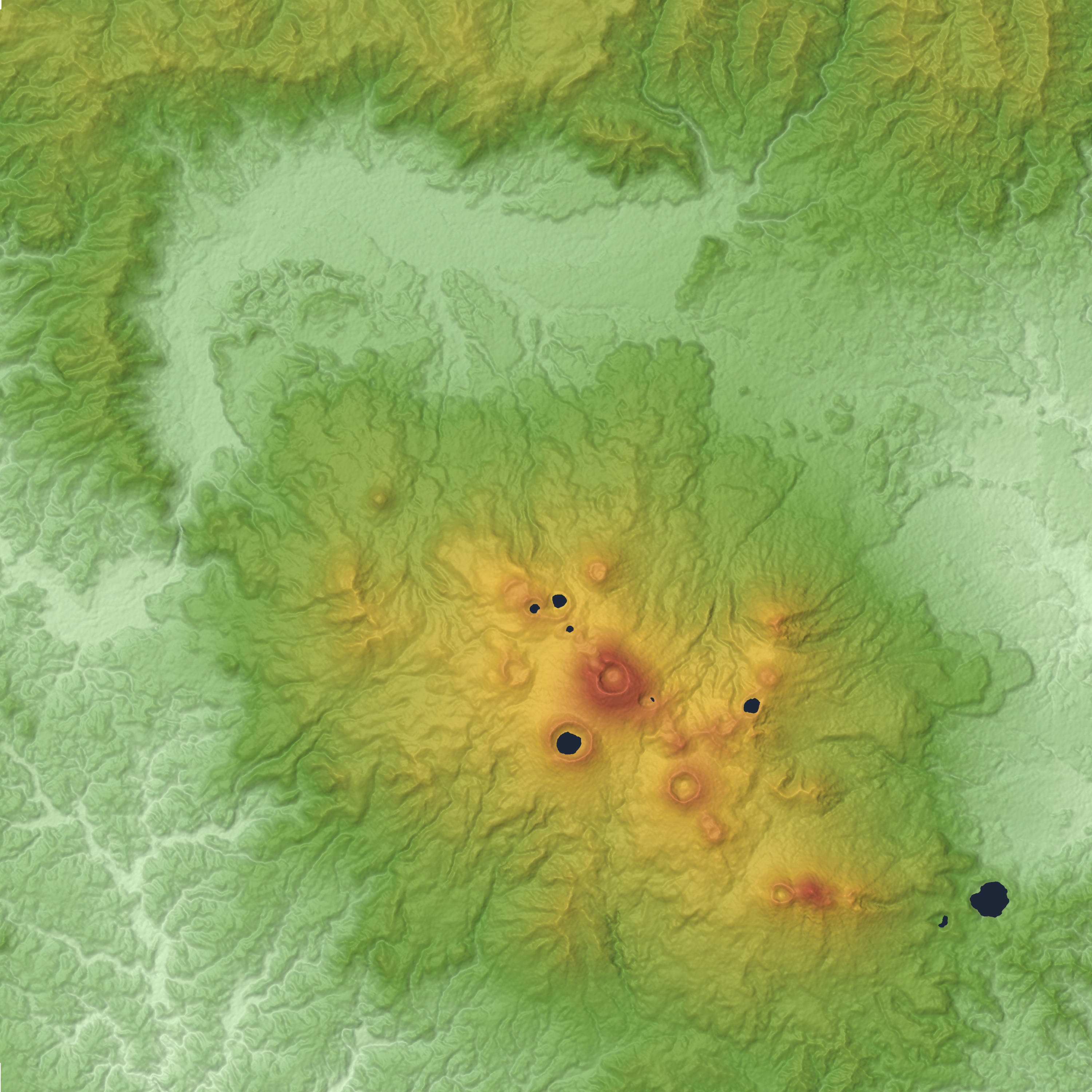 Kirishima Volcano and Kakuto Caldera (top left) in Kyushu, Japan.